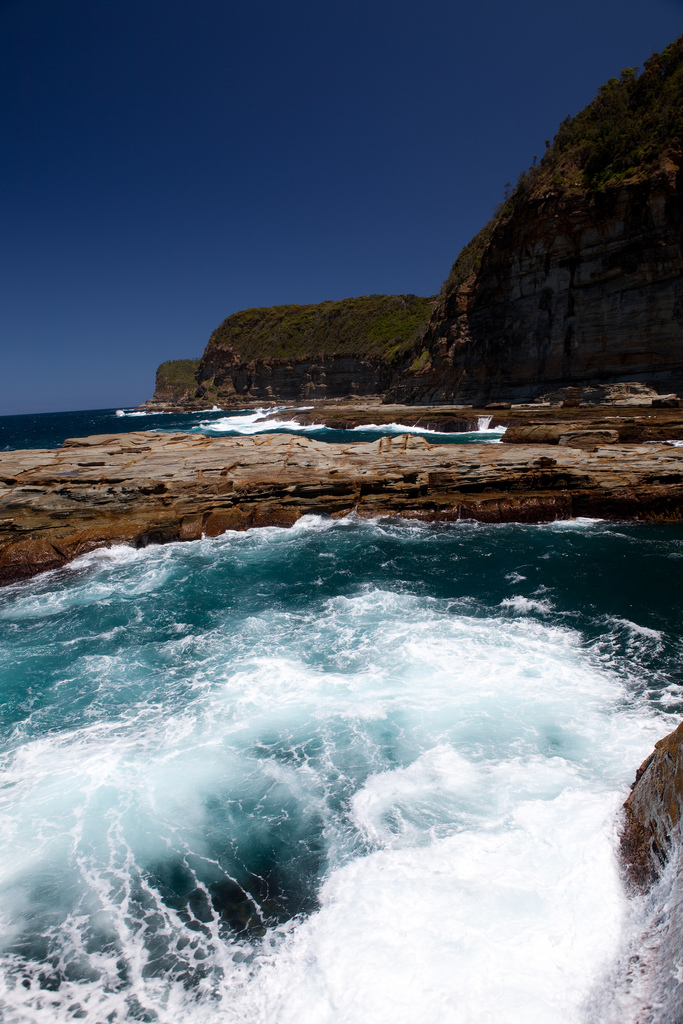 North Avoca Beach NSW Australia